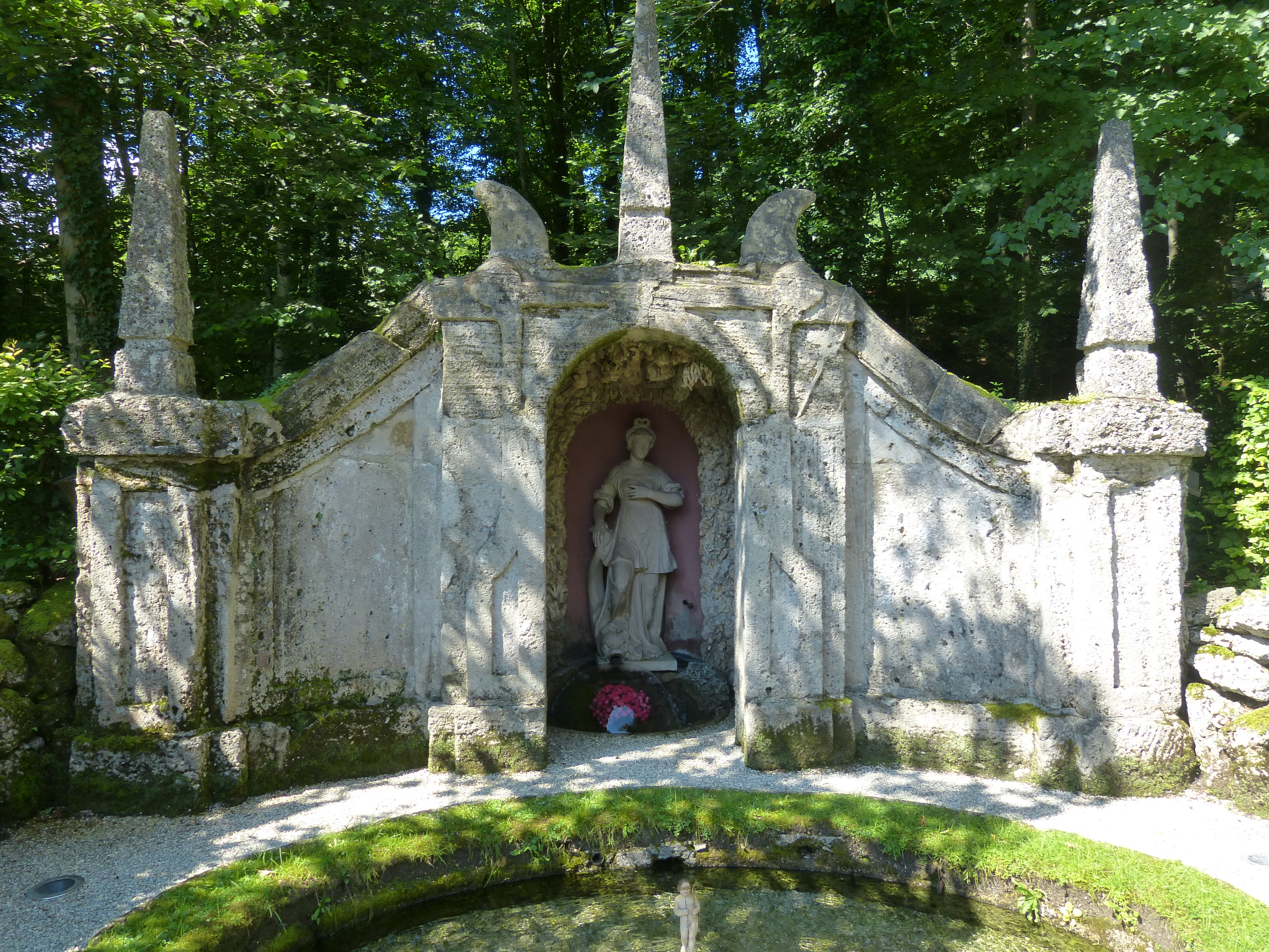 Salzburg ( Austria ). Hellbrunn palace gardens: Grotto of Venus ( 1613-15 )